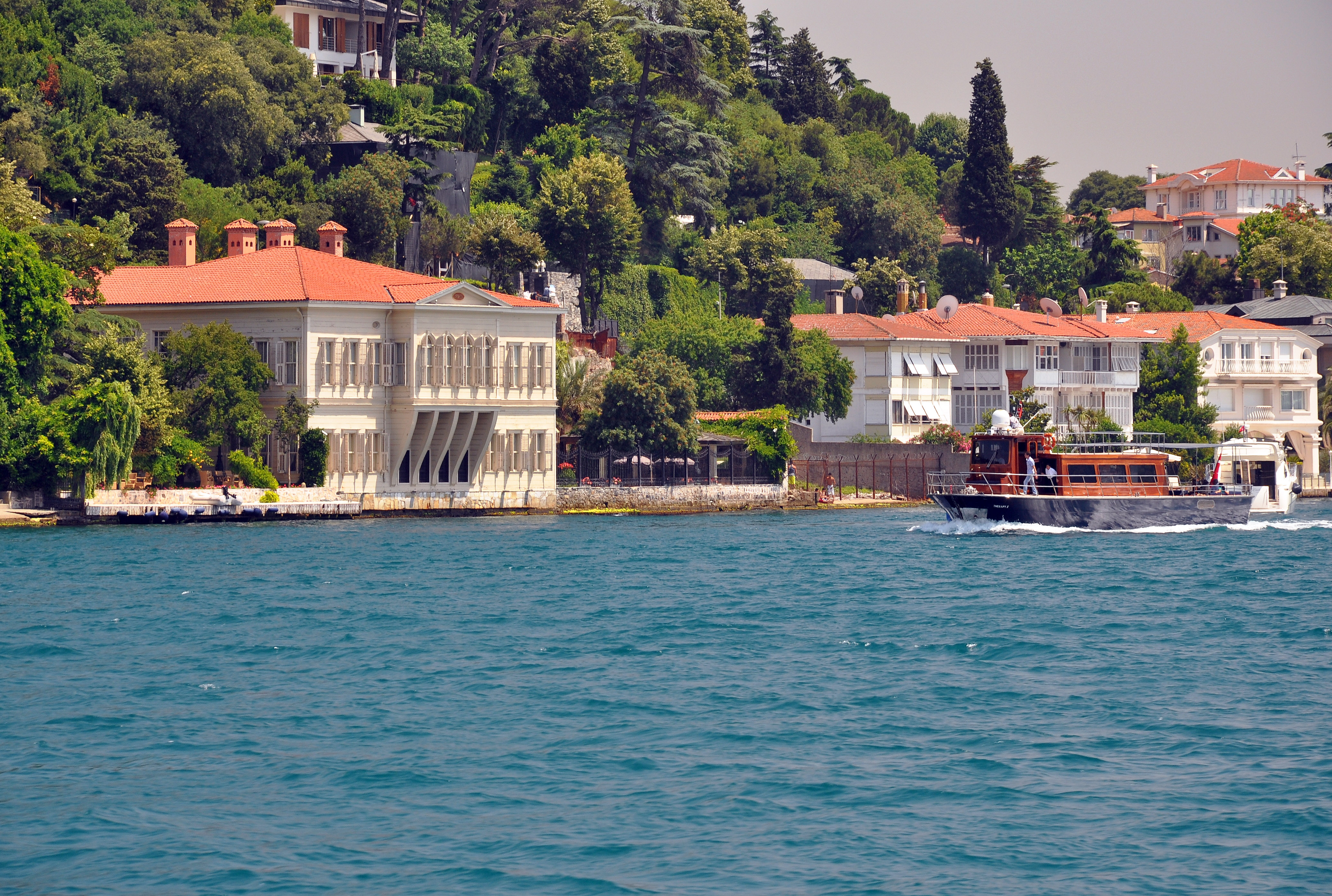 Zarif Mustafa Paşa Yalısı, a Yalı ottoman mansion in Kanlıca on the shore of Bosphorus in Turkey.